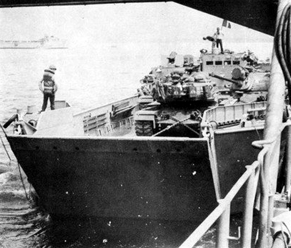 A U.S. Navy Landing Craft Utility (LCU) landing craft in the well dock of the dock landing ship USS Belle Grove (LSD-2) during "Operation Piranha", in 1965. The amphibious ships landed a Battalion Landing Team (BLT) of the 1st Battalion, 7th Marines on the Batangan Peninsula, Vietnam. Note the M48 tanks tanks aboard the LCU.